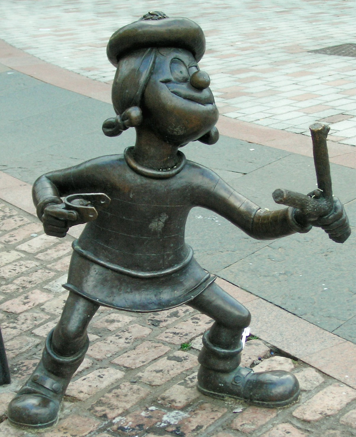 Statue of Minnie the Minx in Dundee, Scotland city centre